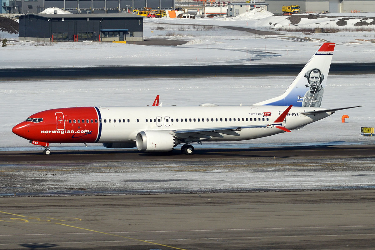 Norwegian (Tom Crean Livery), EI-FYB, Boeing 737-8 MAX